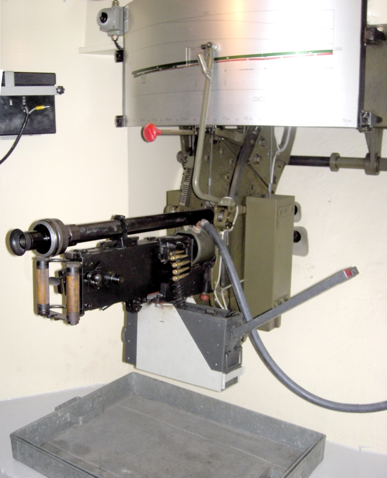 Mg 11 auf Festungslafette